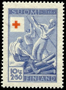 Postage stamp depicting Finnish log workers